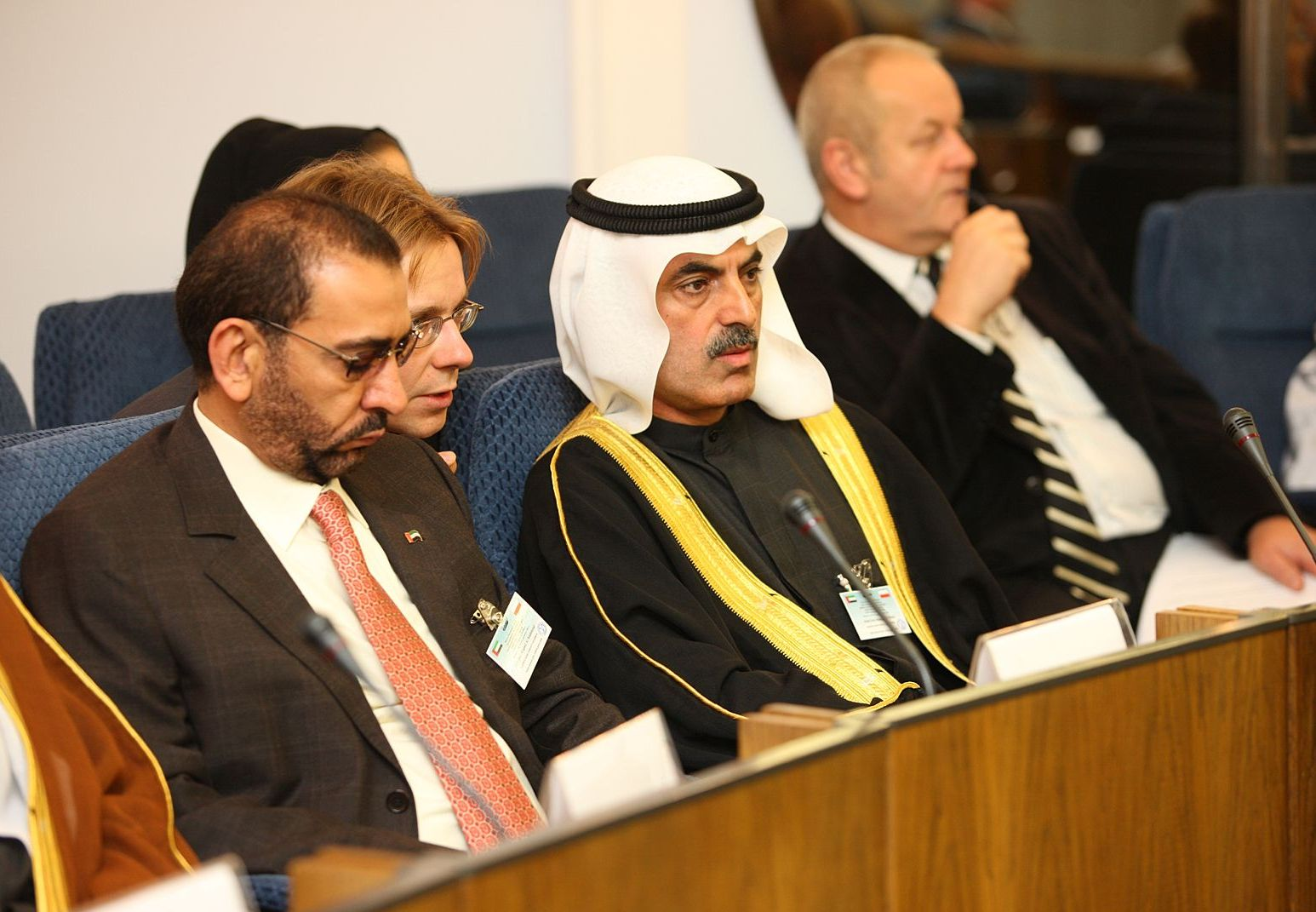 peaker of the House of the Federal National Council of the United Arab Emirates Abdul Aziz Al Ghurair in the Polish Senate